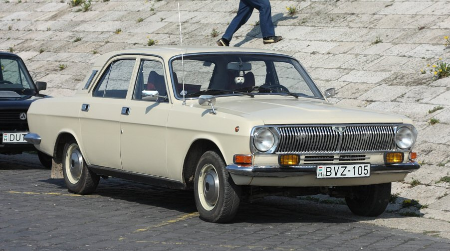 Beige GAZ-24-10 Volga (early 1985-1986 model).